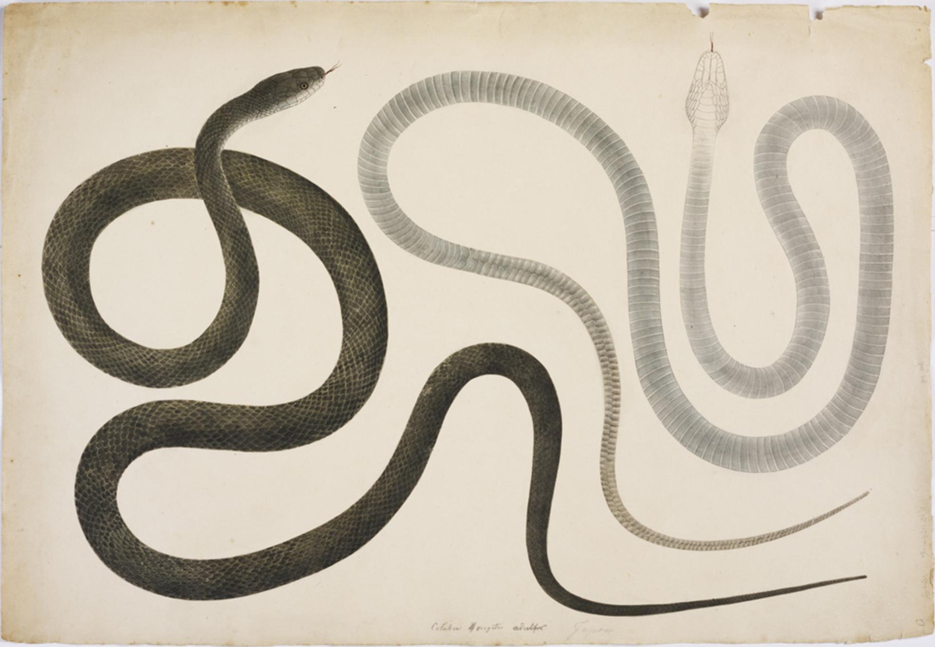 Elaphe climacophora